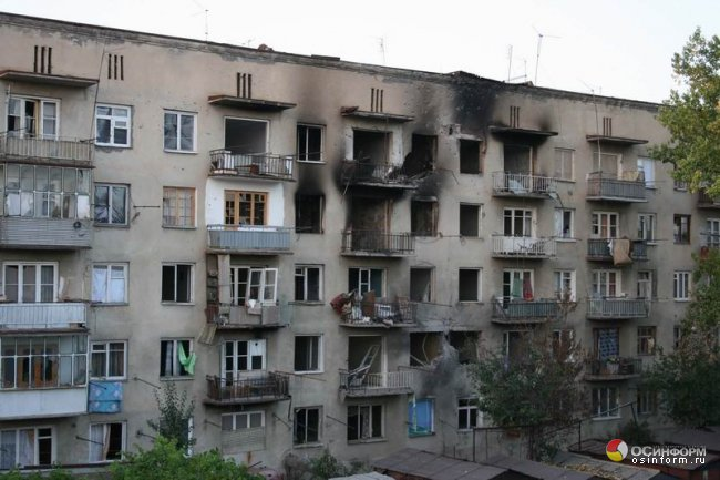 18 August 2008. Tskhinval after Georgian artillery bombardment